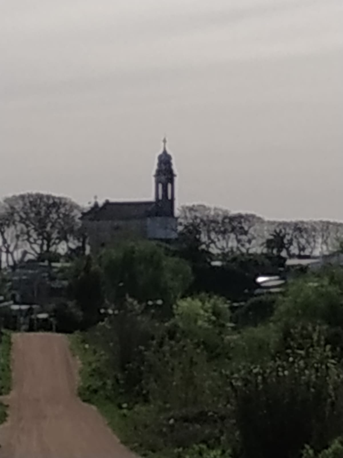 View from Villa García park.